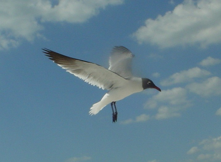 Laughing Gull in flight. Photo by Guanaco